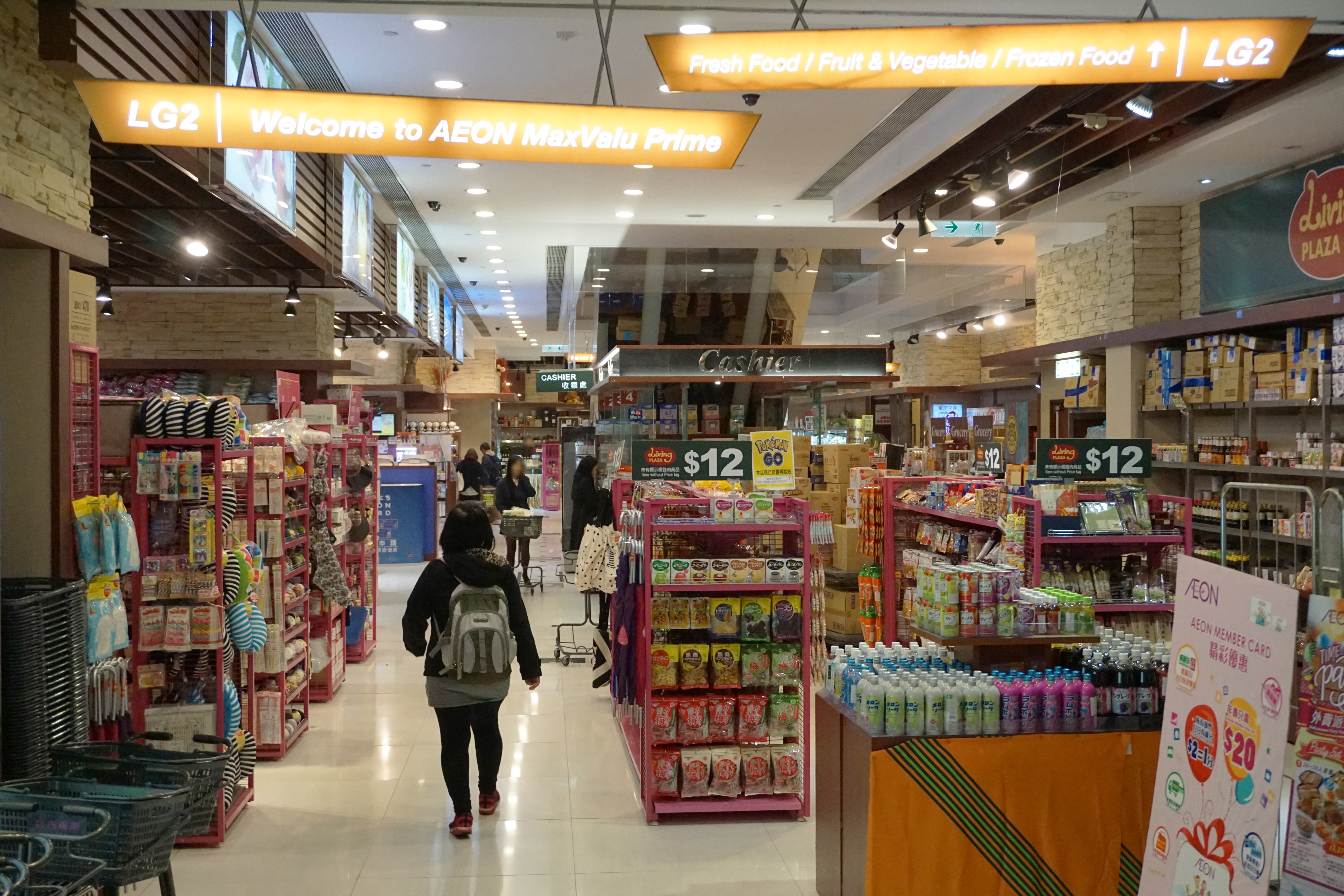 The ONE in Tsim Sha Tsui, Hong Kong.